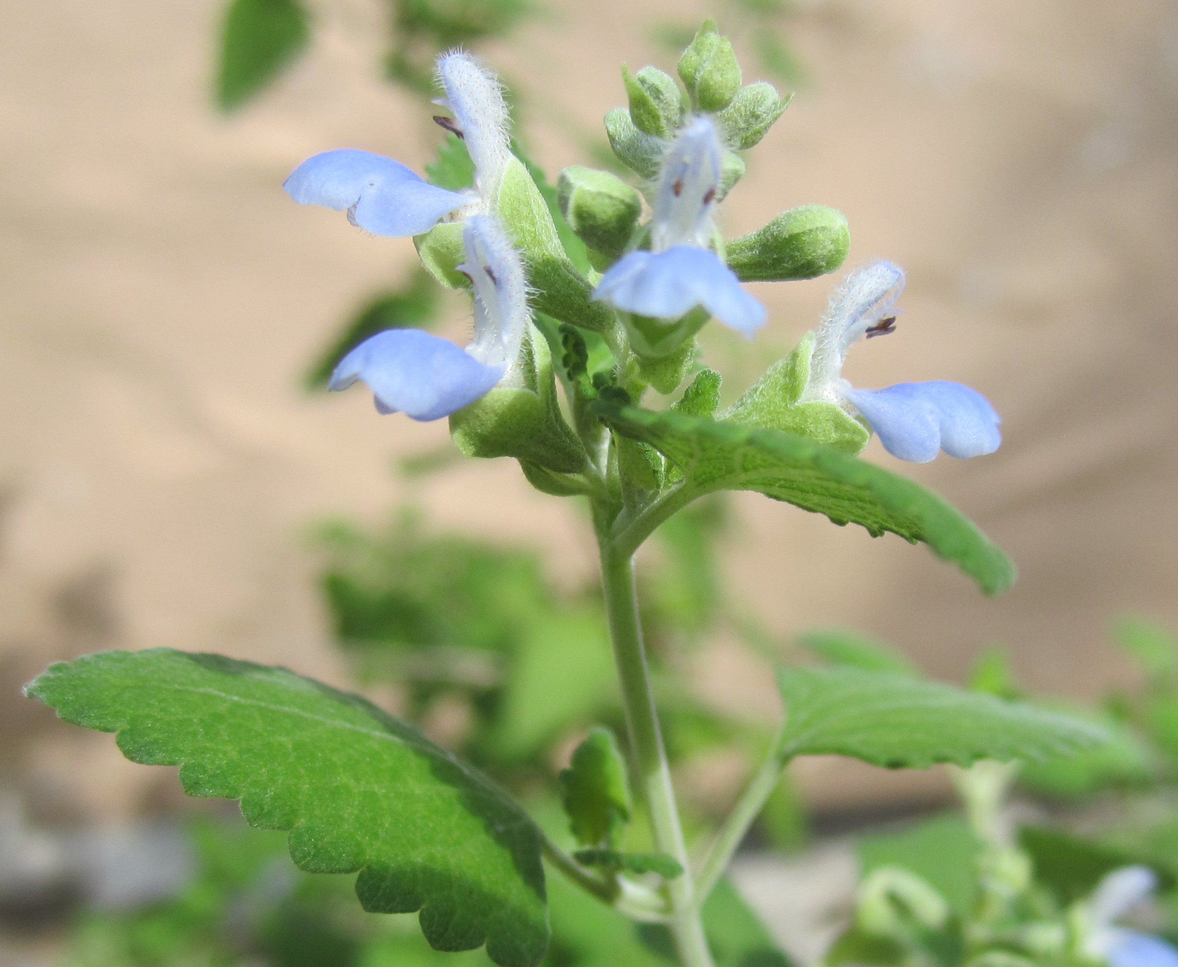 Flowers of a cultivated Salvia ballotiflora specimen.